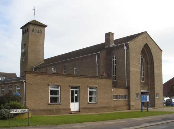 Bishop Hannington Memorial Church, West Blatchington, City of Brighton and Hove, England. Viewed from the southwest.